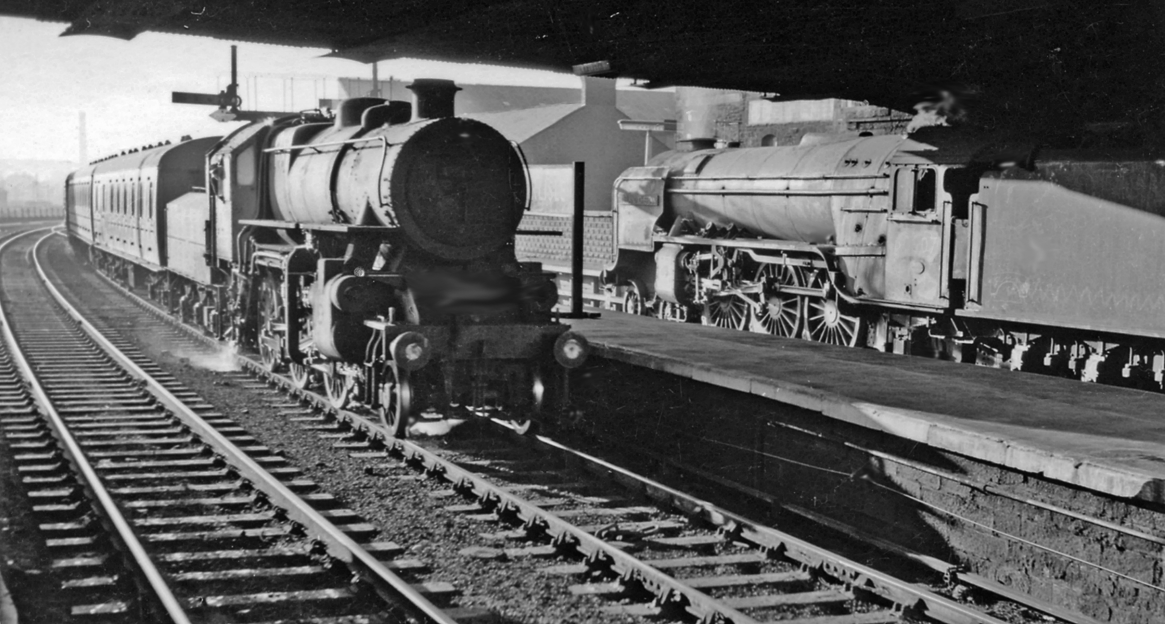 Waverley Route trains at Carlisle. View northward from the north end of Carlisle Citadel station - major centre where seven pre-Grouping Railways came together. Here the 18.22 local from Langholm with LMS Ivatt 4MT 2-6-0 No. 43139 (built 7/51, withdrawn 9/67) is arriving as LNE Thompson A2/1 Pacific No. 60507 'Highland Chieftain' (built 5/44 as No. 3696, withdrawn 12/60) waits to leave on the 19.44 semi-fast to Edinburgh Waverley.